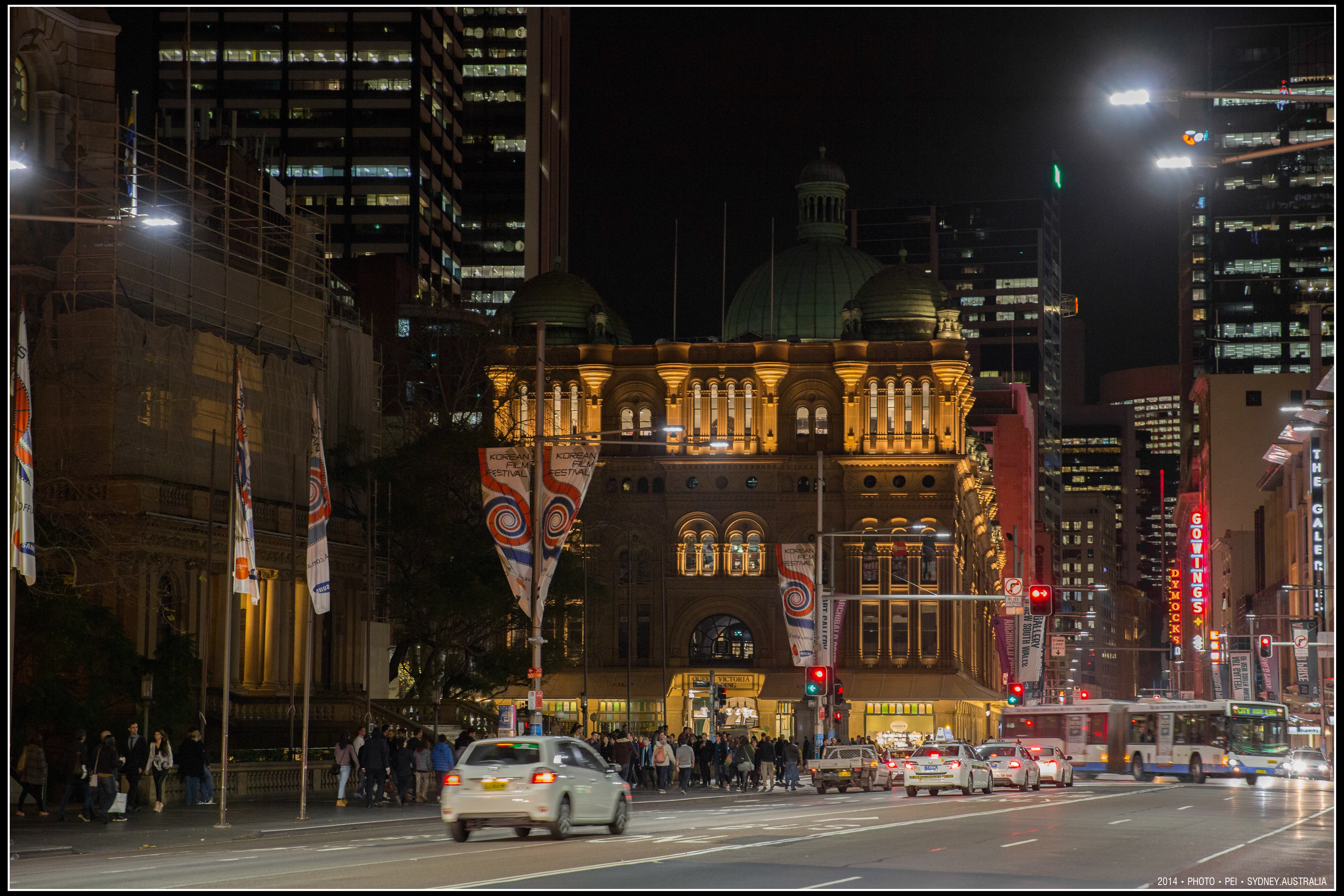 The Queen Victoria Building at night, with George Street to the right.